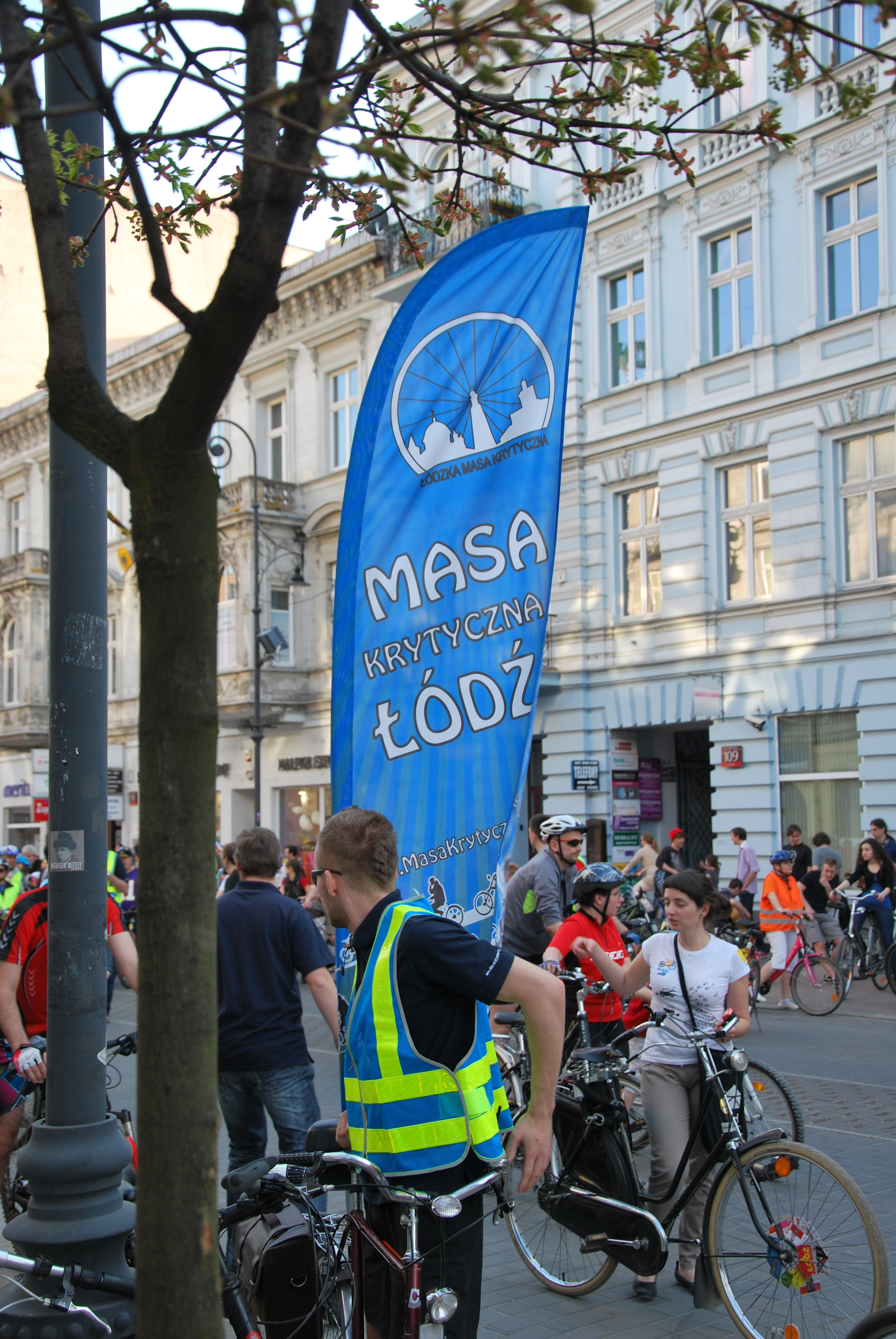 Critical Mass in Łódź, April 2013